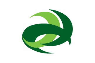 Flag of Misato Miyagi